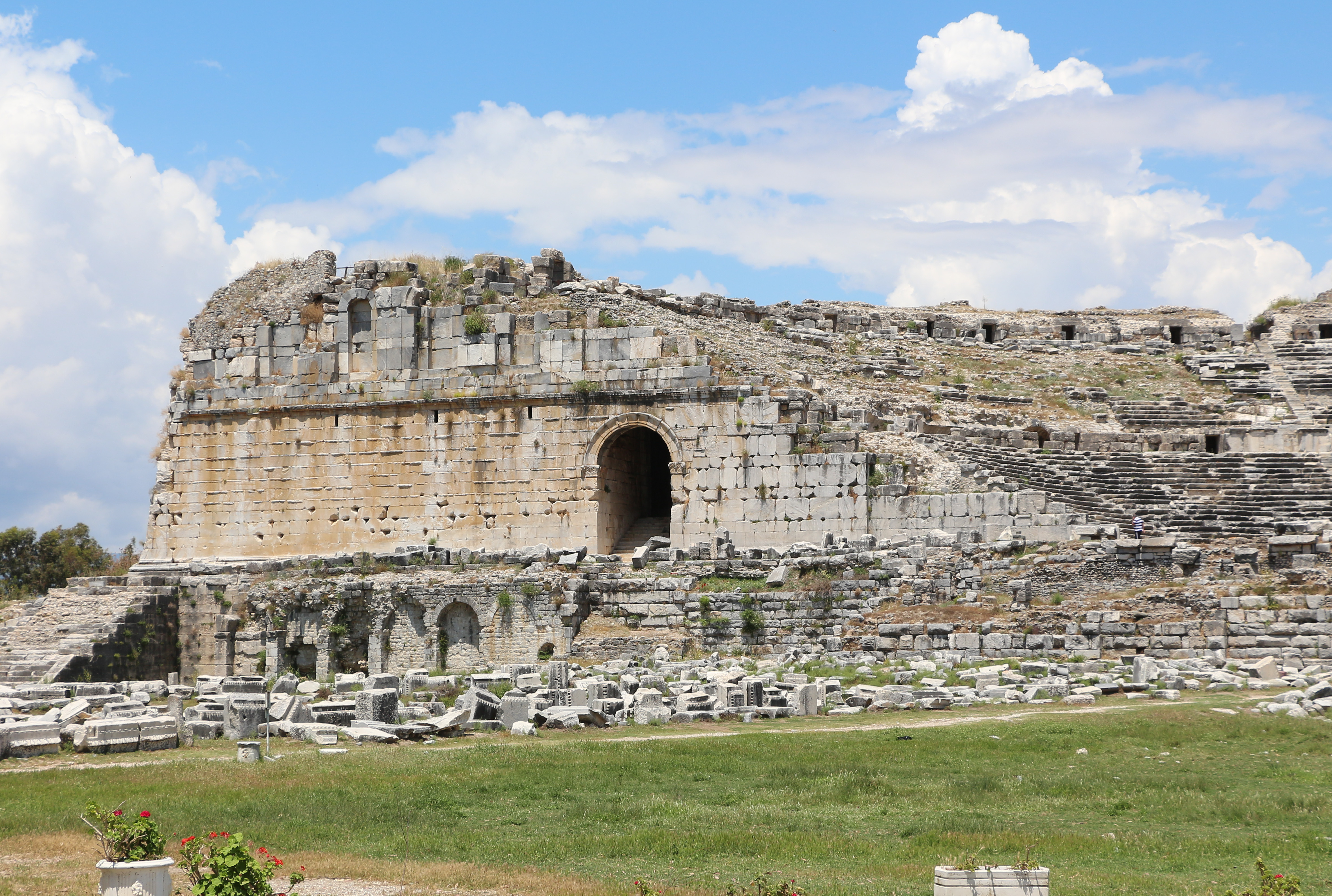 Left entrance of the ancient Greek theatre in Miletus, Turkey